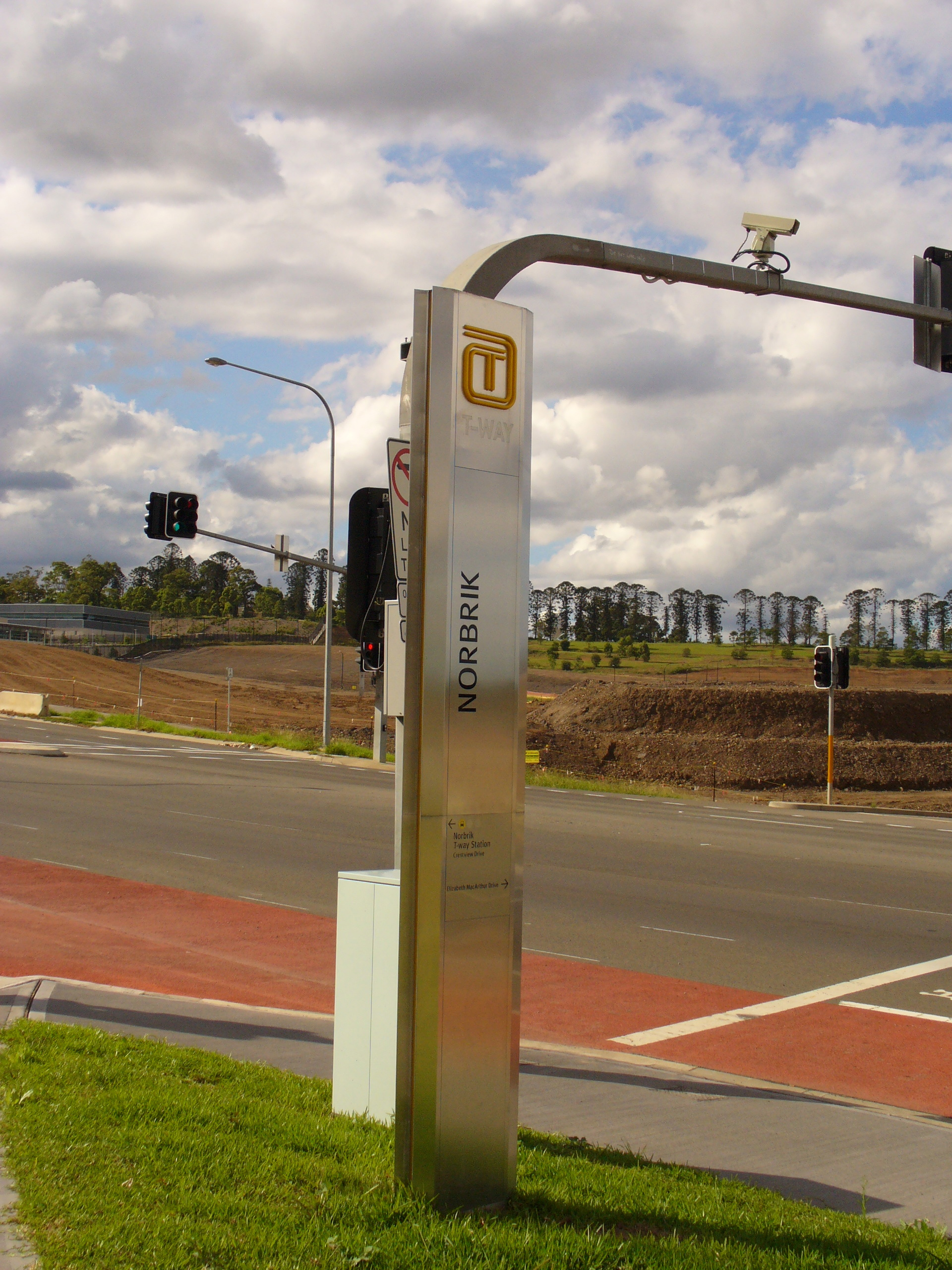 Norbrik T-Way station, Glenwood, Australia